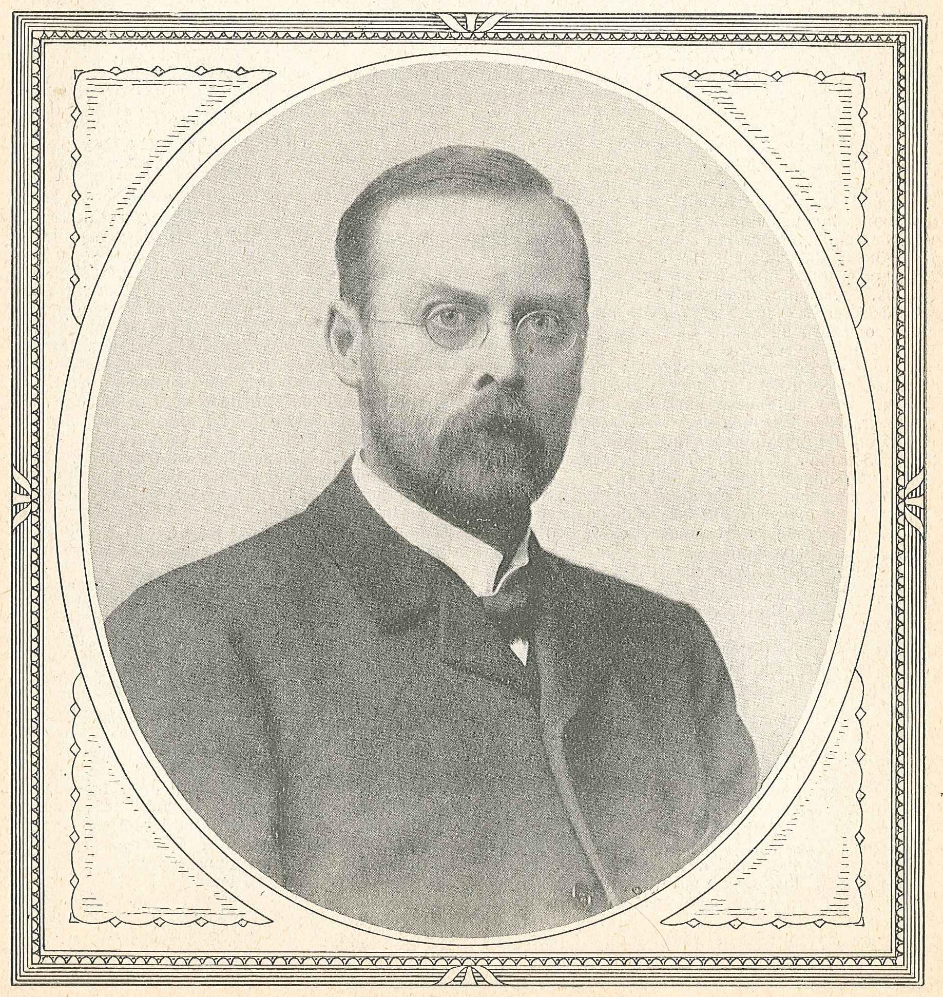 Victor Moll (1858-1929), Swedish banker, head of Sveriges riksbank 1912-1929 and member of parliament.